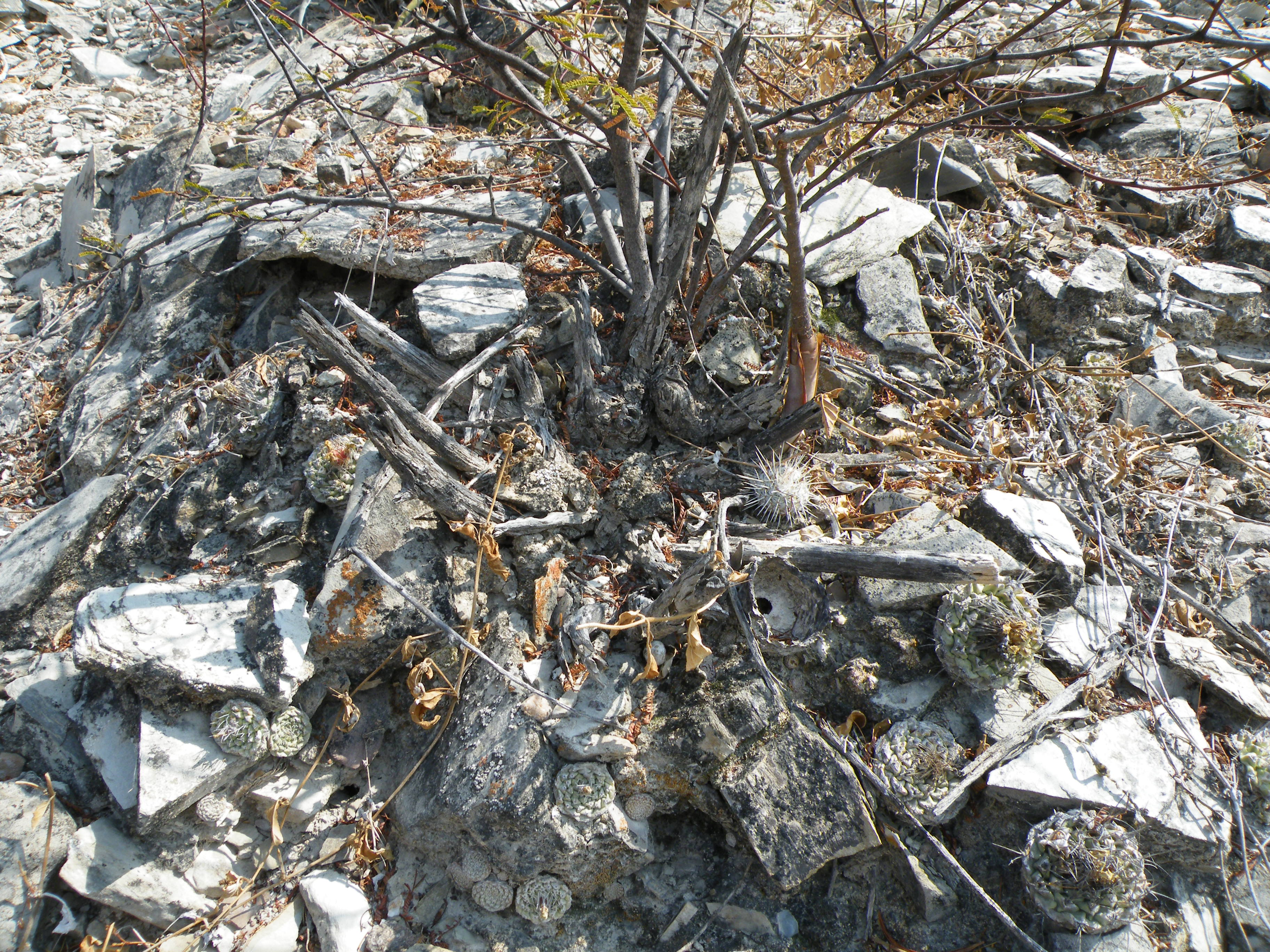 Strombocactus disciformis near Pena Blanca, Queretaro